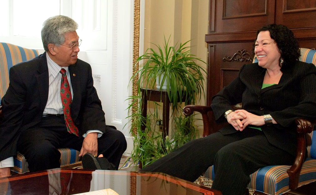 Senator Daniel Akaka of Hawaii with Supreme Court nominee Sonia Sotomayor.